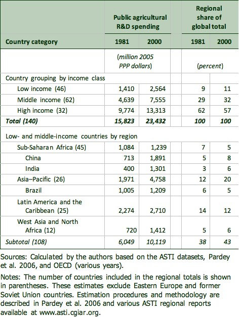 Table in Beintema, N.M. and Stads, G.J. 2008. Measuring Agricultural Research Investments: A Revised Global Picture. ASTI Background Note. Washington, D.C.: IFPRI.